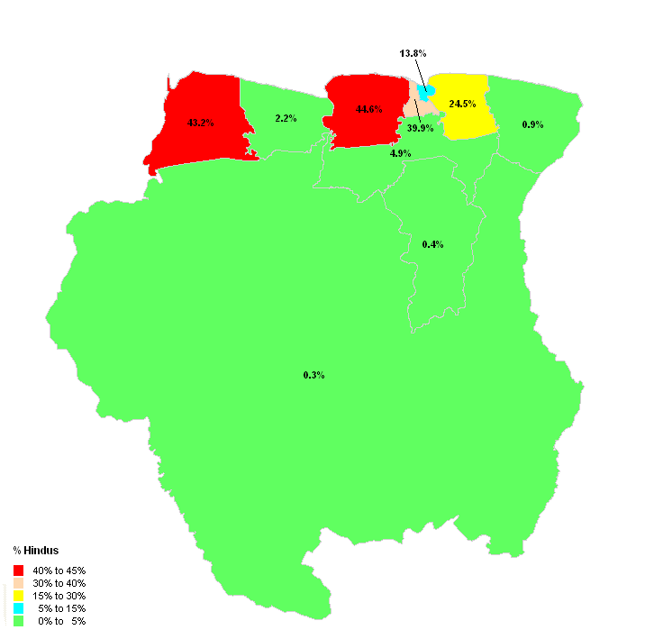 Map showing distribution of Hindus in Suriname.